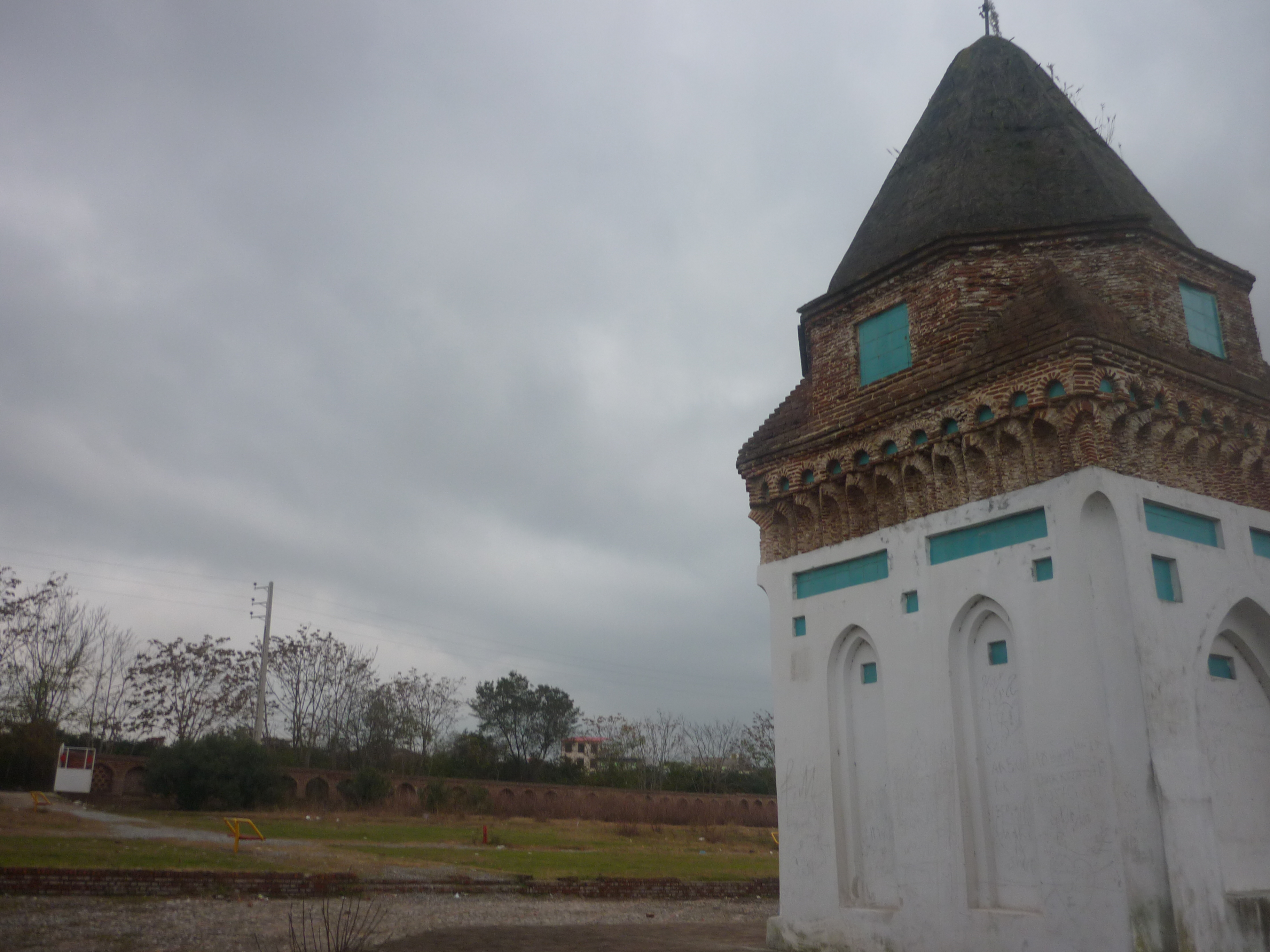 NASER AL HAQQ ATROWASH Make shie in iran